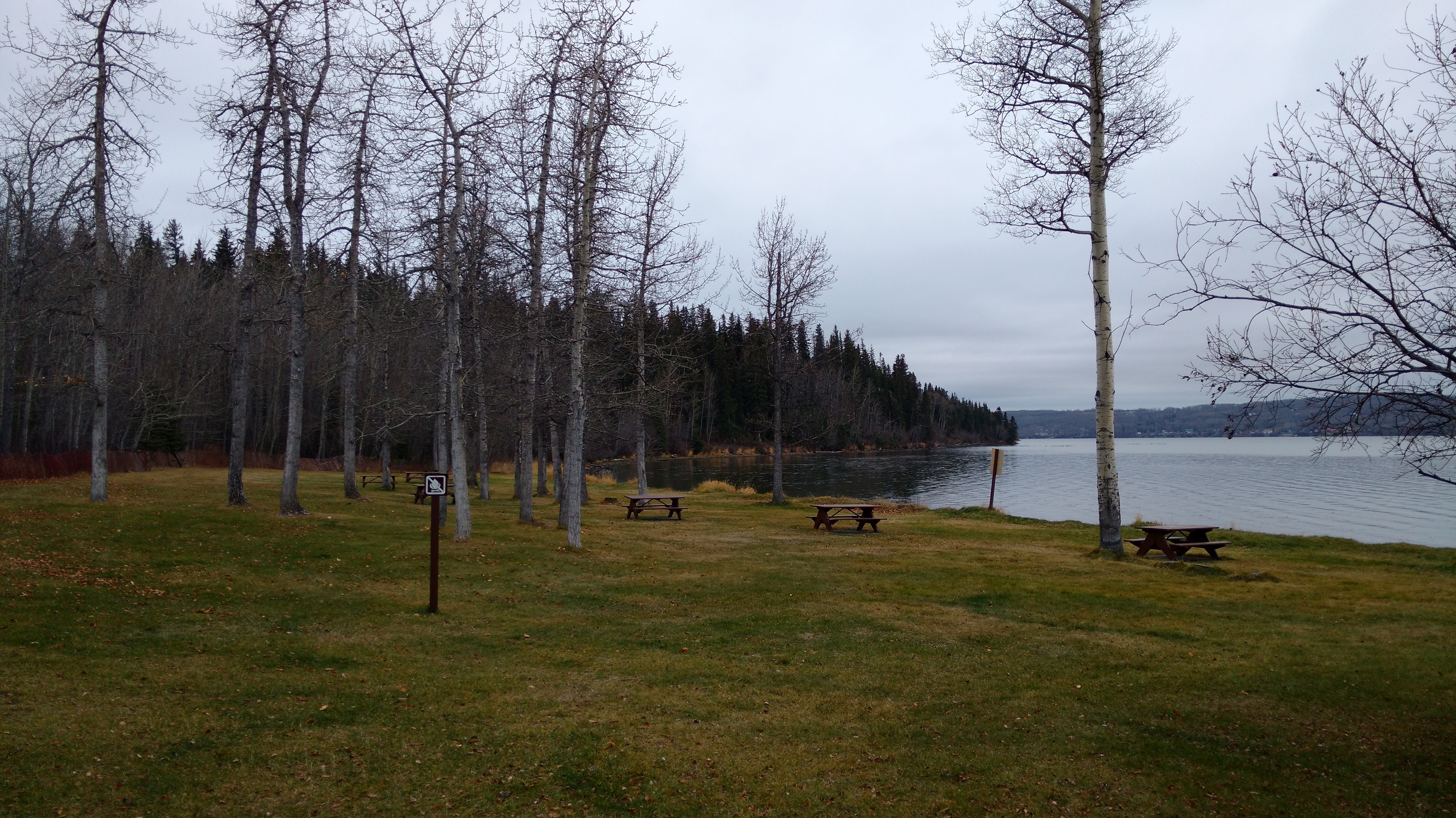 Picnic Area